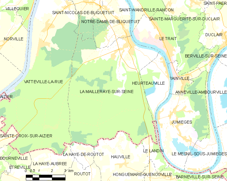 Map of French municipality La Mailleraye-sur-Seine